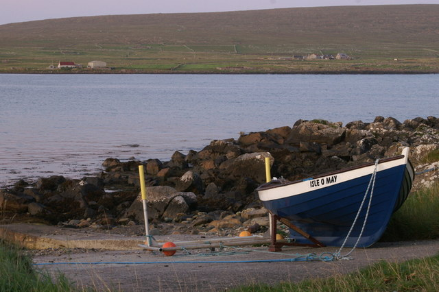 Shetland yoal, Haroldswick A yoal is a traditional double-ended Shetland boat.